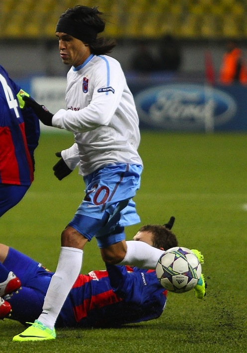 Gustavo Colman with Trabzonspor in 2011.